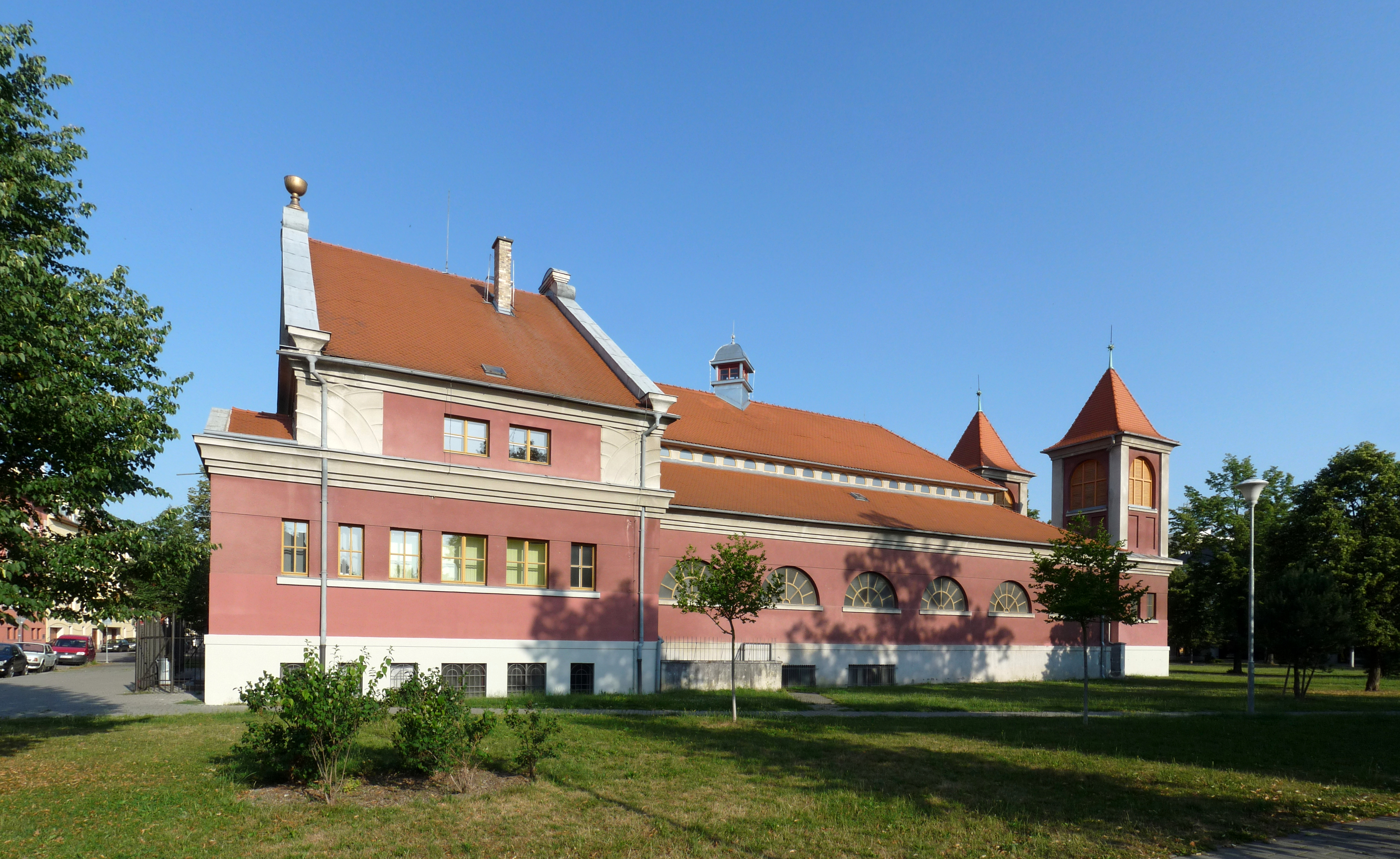 Church of the Czechoslovak Hussite Church in the town of České Budějovice, South Bohemian Region, Czech Republic.